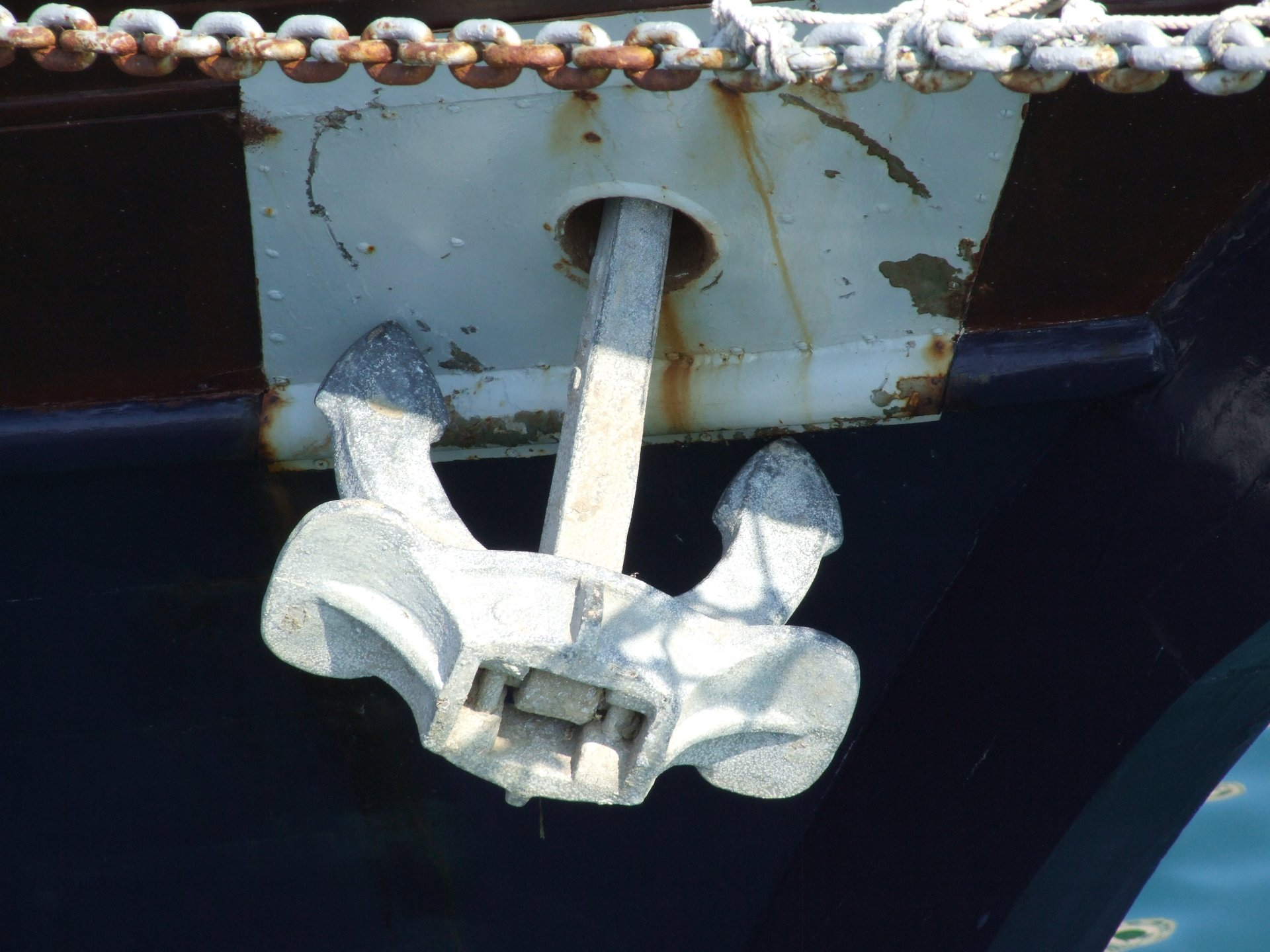 An anchor is an object, often made out of metal, that is used to attach a ship to the bottom of a body of water at a specific point. There are two primary classes of anchors—temporary and permanent. A permanent anchor is often called a mooring, and is rarely moved; it is quite possible the vessel cannot hoist it aboard but must hire a service to move or maintain it. Vessels carry one or more temporary anchors which may be of different designs and weights. A sea anchor is a related device used when the water depth makes using a mooring or temporary anchor impractical.